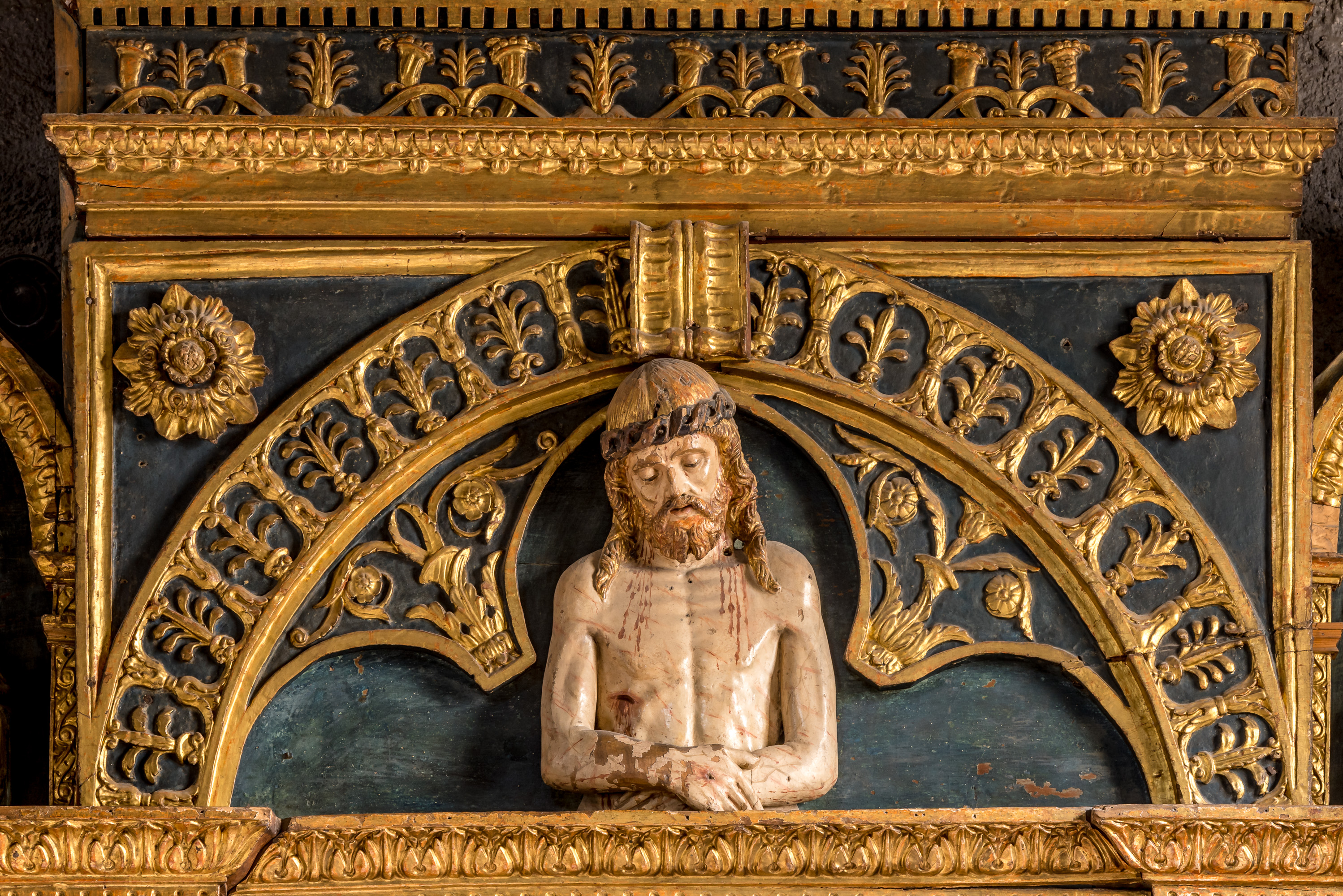 Pietro Bussolo "Altarpiece of the Nativity (detail)" Gilted and colored wood, end of XV century St. George Church in Grosio, Italy